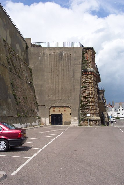 Disused railway tunnel at Ramsgate Harbour, Kent. In 1923 the two competing railway companies that served Kent were merged into the newly-formed Southern Railway. It soon set about sorting out the muddle of railways which it had been bequeathed on the Isle of Thanet. By building a short length of new line it created a loop around the Thanet coast, joining the two old systems together. As a result, the two old stations in Ramsgate were abandoned and a new one opened. One of the old stations was Ramsgate Harbour, which was approached by a mile long tunnel. The photo shows where the tunnel emerged onto the harbour front.